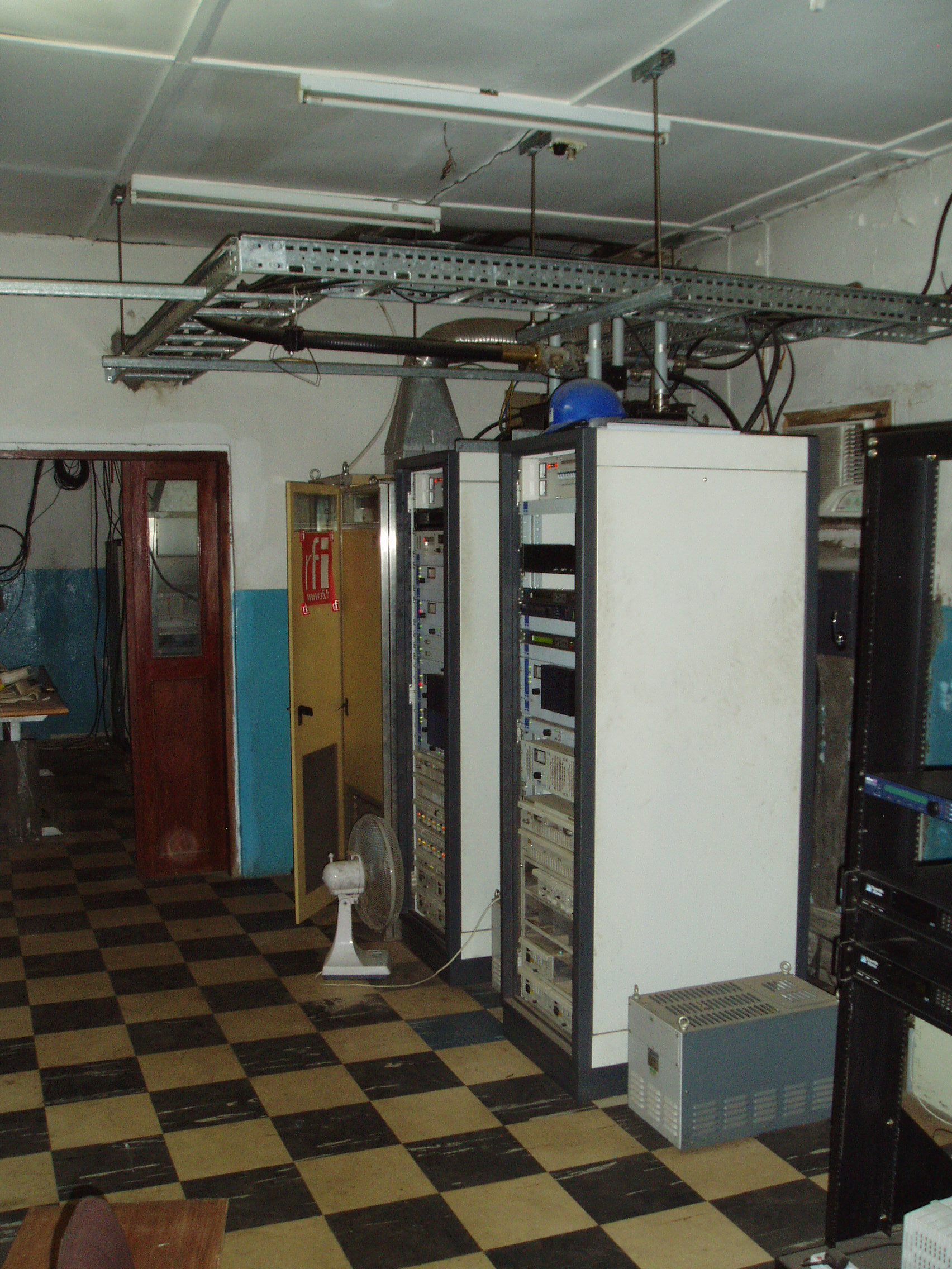 The FM transmitter room at Leicester Peak, Sierra Leone. Taken in January 2005. From the left, RFI, SLBC and BBC transmitters